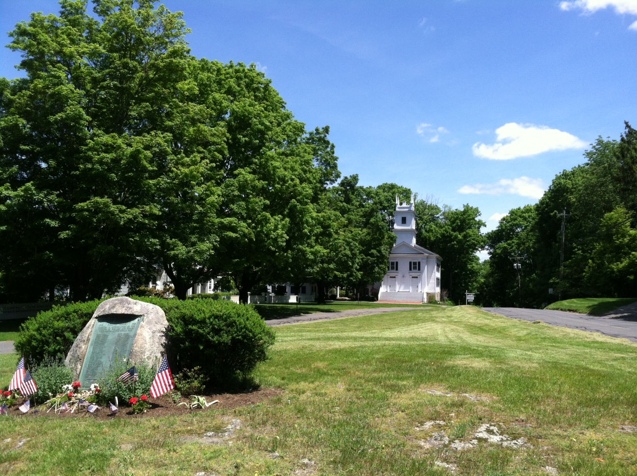 Redding Center in Redding Connecticut; May 2014